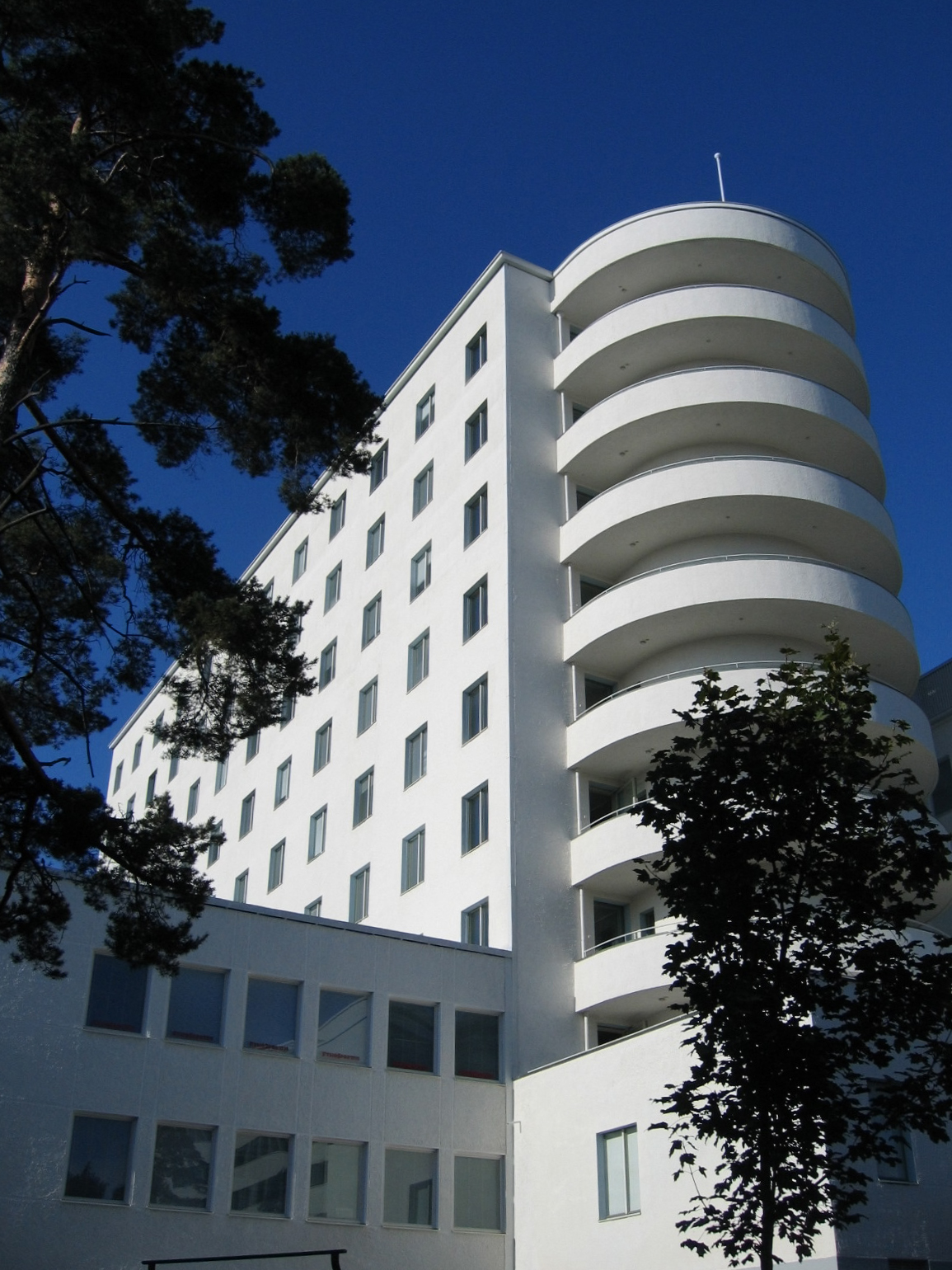 Tilkka, the former central military hospital, Helsinki, Finland. Built 1936, architect: Olavi Sortta.